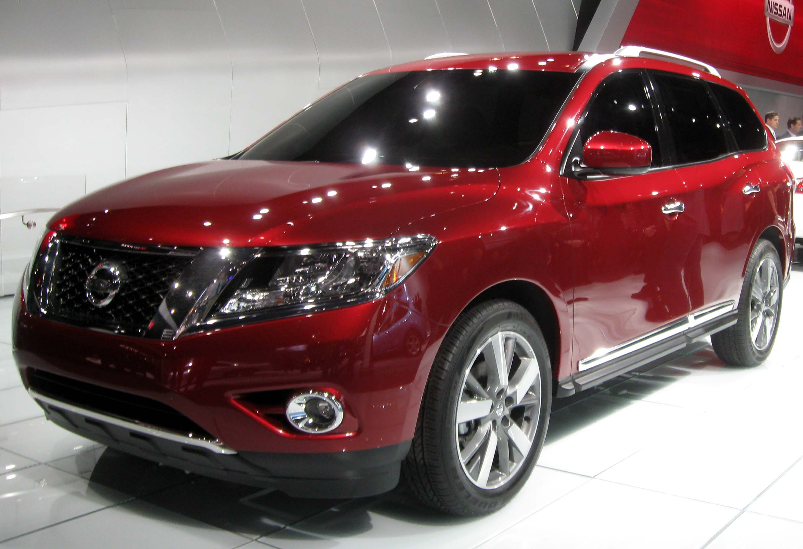 2013 Nissan Pathfinder concept photographed at the 2012 New York International Auto Show.